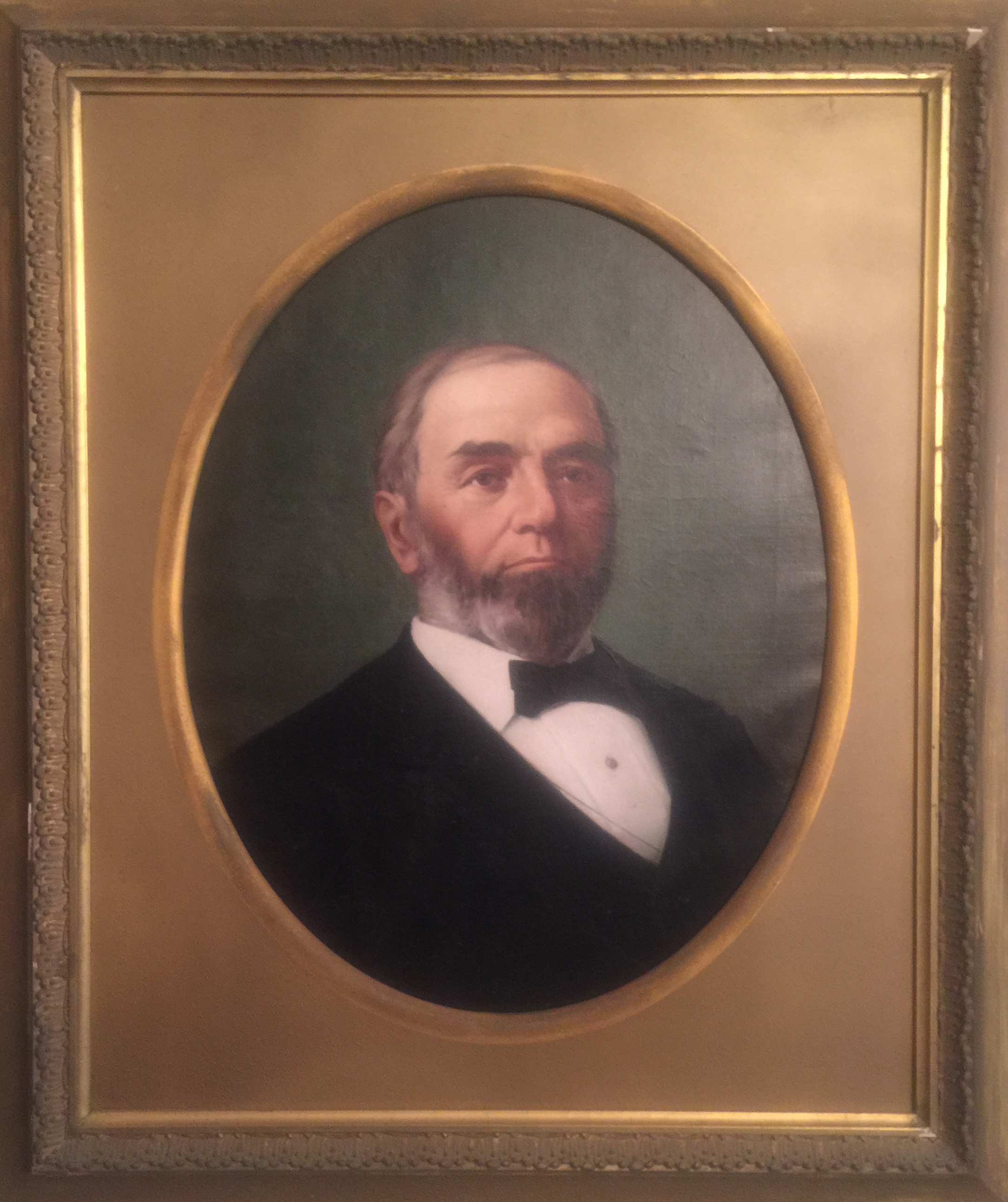 John Willis Griffiths (1809-1882) Oil Portrait